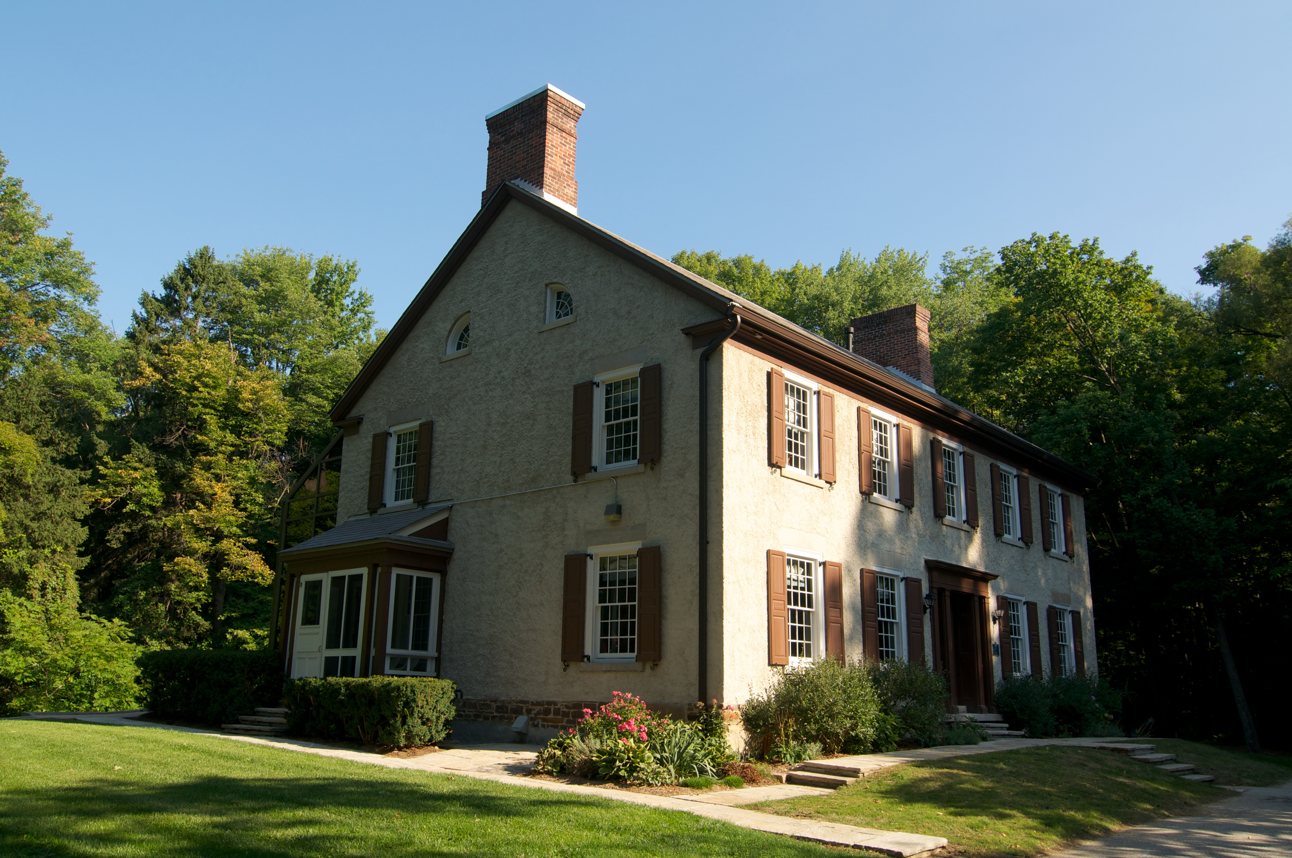 Cawthra-Elliot Estate